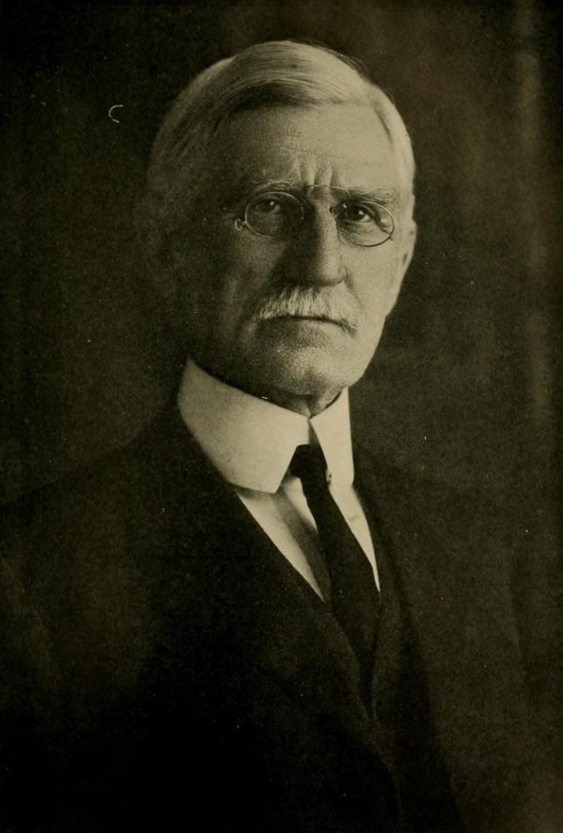 John Cosgrove, Missouri Congressman.